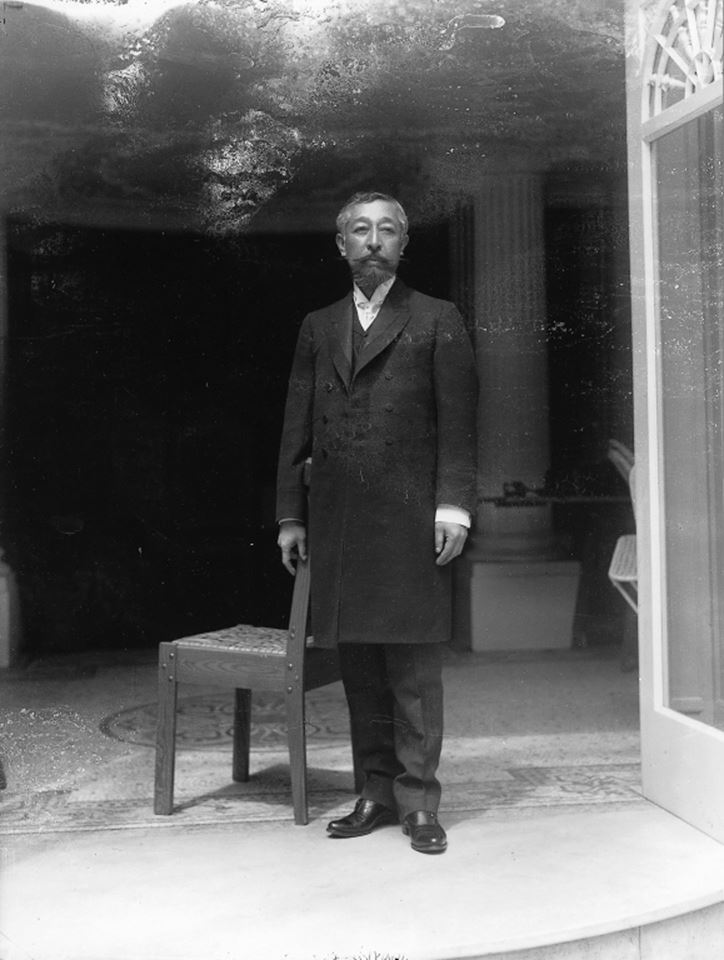 Photograph: Prince Fushimi, son of the Mikado of Japan, Hugh Allan House, Montreal, QC, 1907; Silver salts on glass - Gelatin dry plate process; 25 x 20 cm